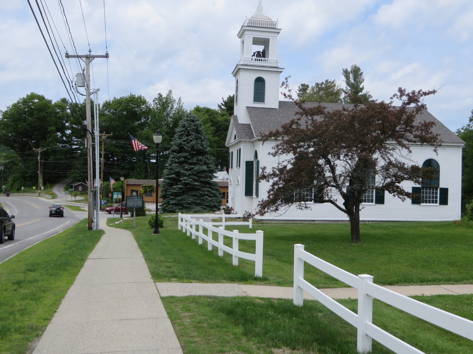 Center Meeting House, Newbury. June 2015.